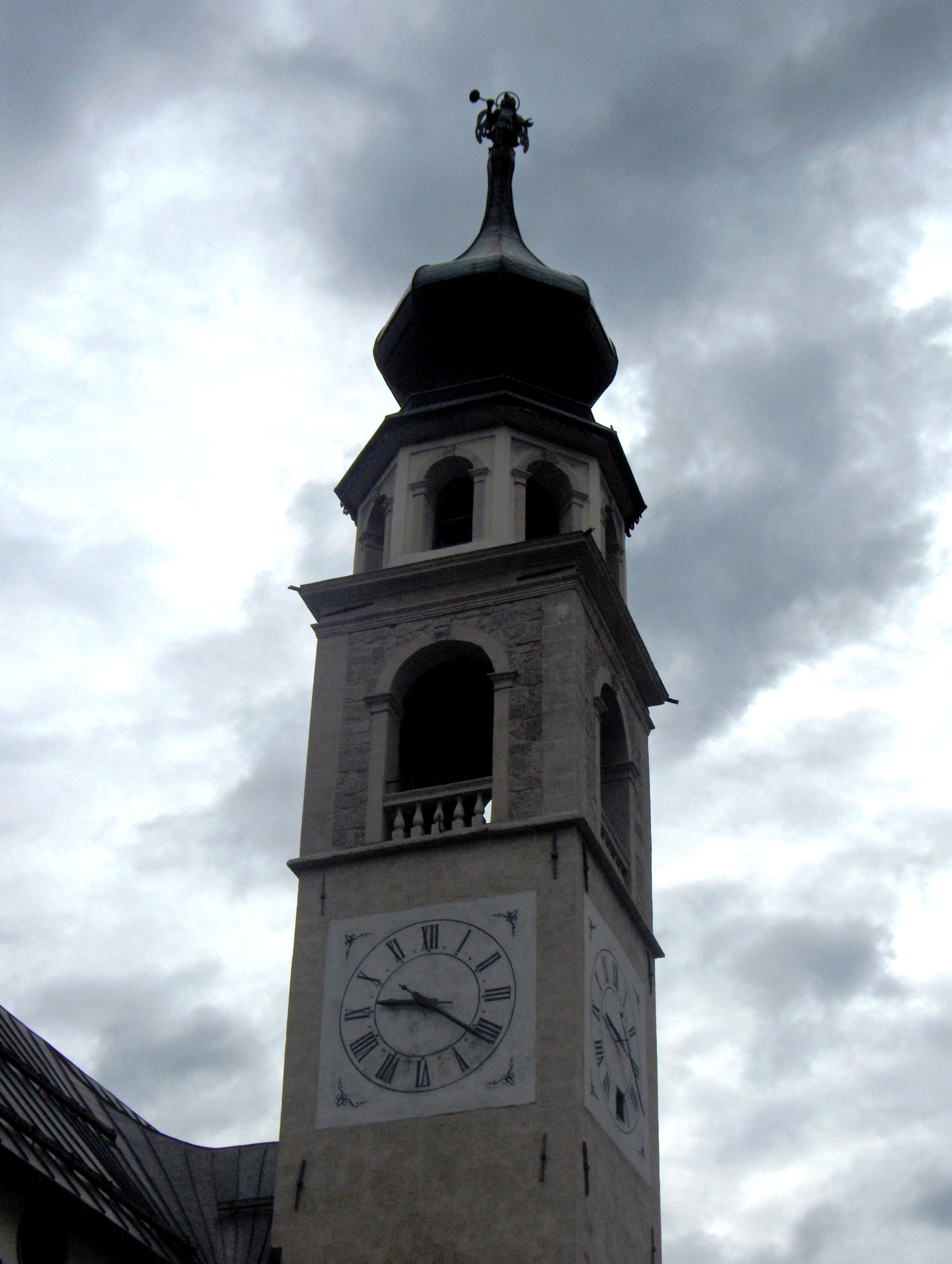 The bell tower of the church archpriest Canale d'Agordo.